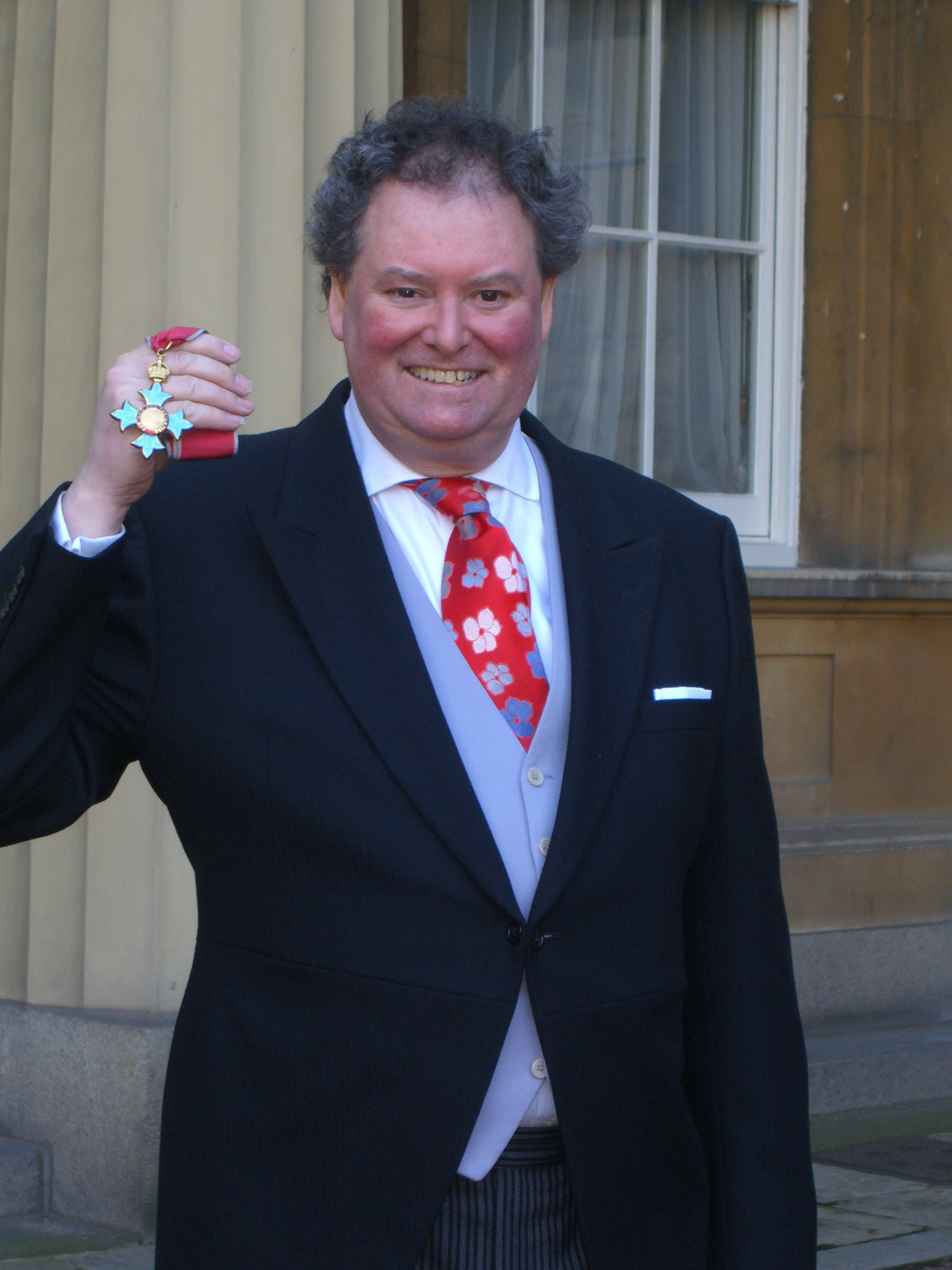 A photograph of the solicitor Mark Stephens after receiving his CBE.